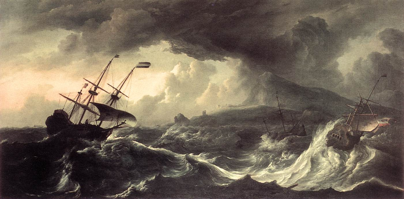 Ships Running Aground in a Storm